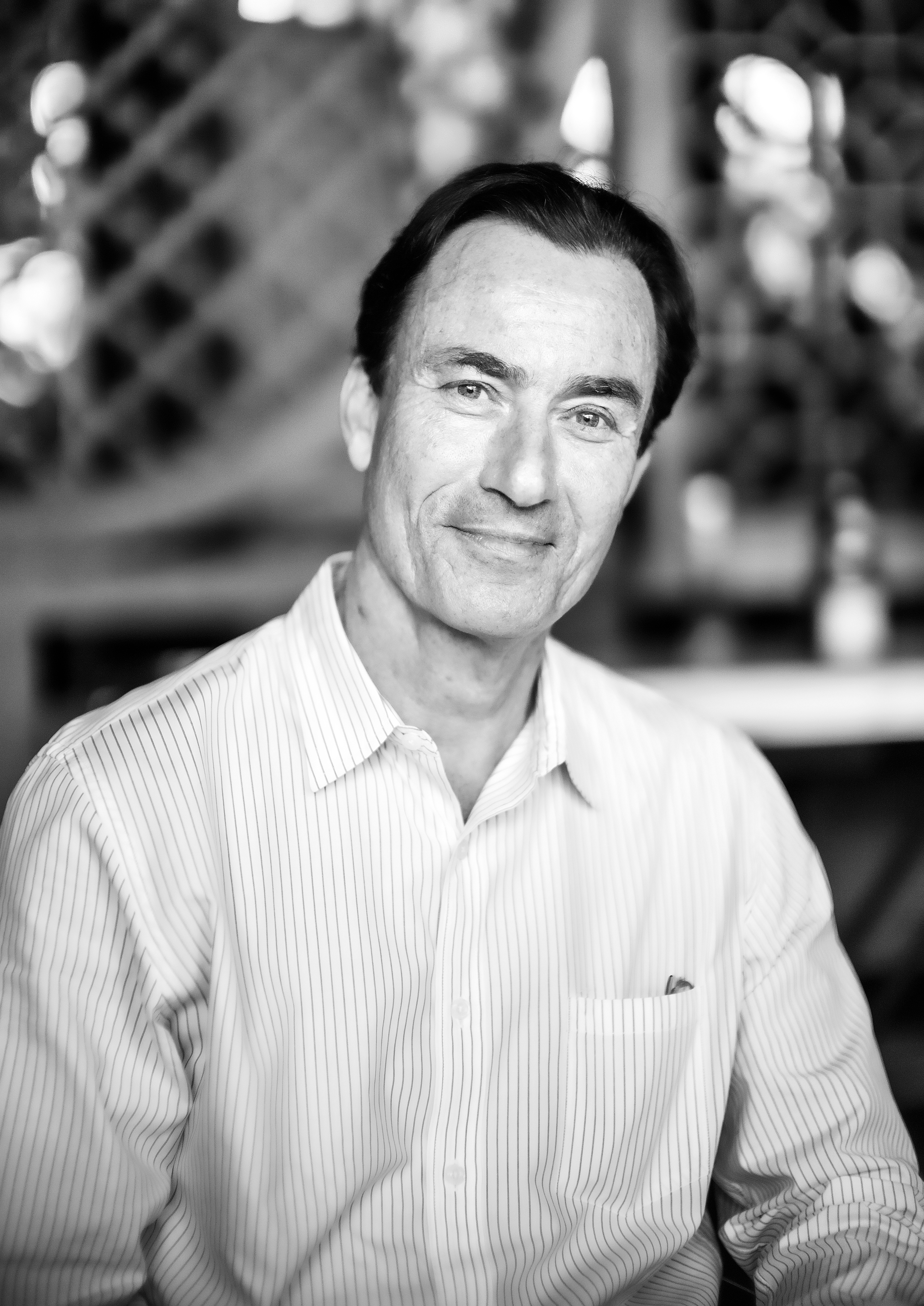 Desktop